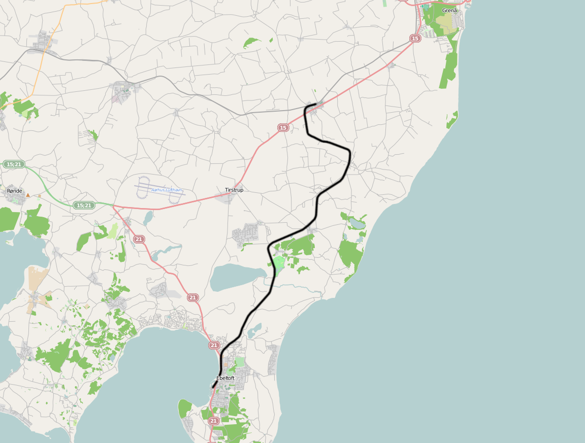 Railway line Trustrup - Ebeltoft